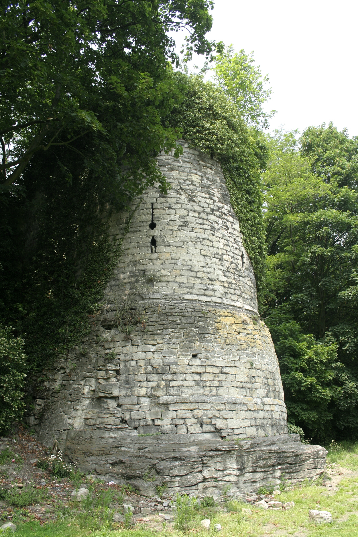 Tournai (Belgium), one of the Marvis (Second surrounding wall - XIIIth century). The 12th century Saint Jean towers are 150 meters further on.